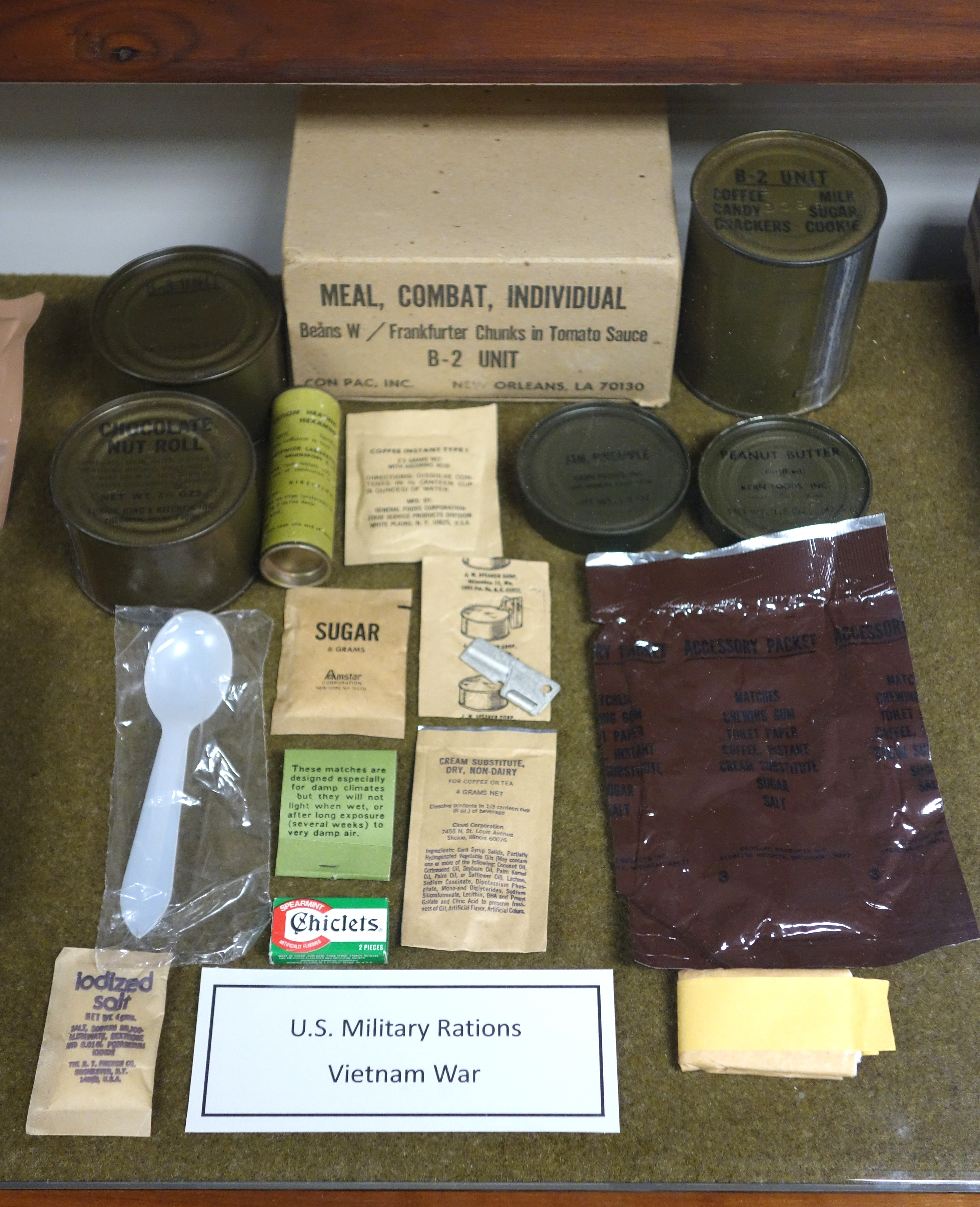 Exhibit in the Fort Devens Museum, 94 Jackson Road #305, Devens, Massachusetts, USA.